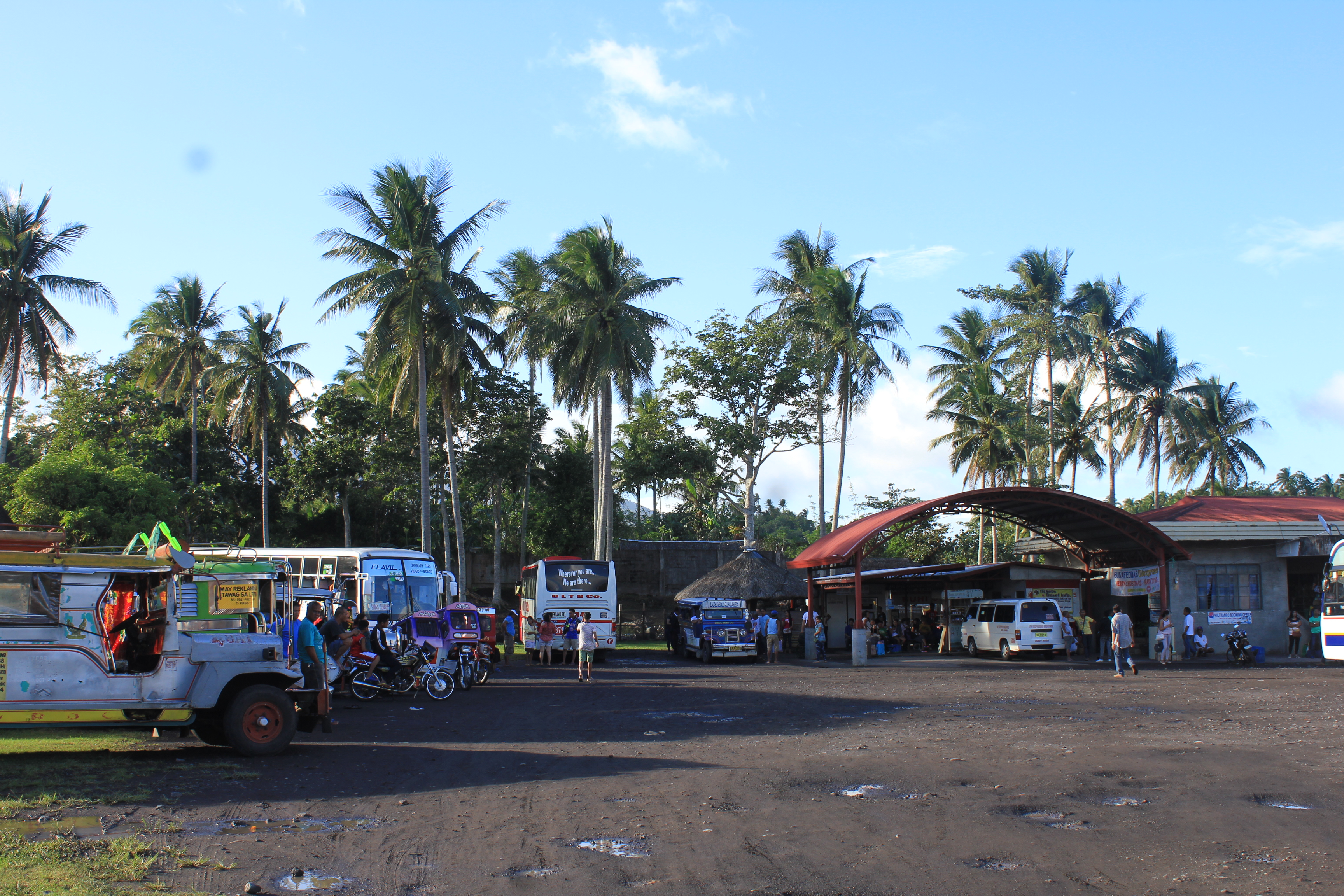 Buses, jeepney, and other transportation vehicles to different municipality is in Buhi terminal.